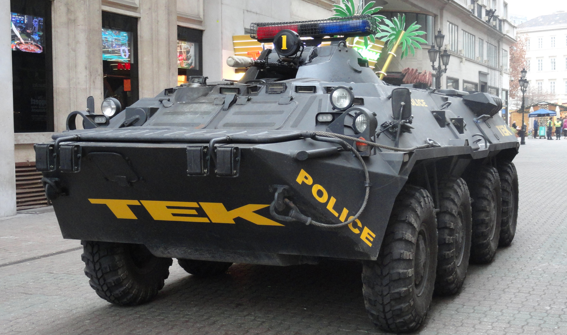 Hungarian Counter Terrorism Centre (TEK, Terrorelhárítási Központ) BTR-80 armored personnel carrier in Budapest at the 2016 Vörösmarty Square Christmas Fair.